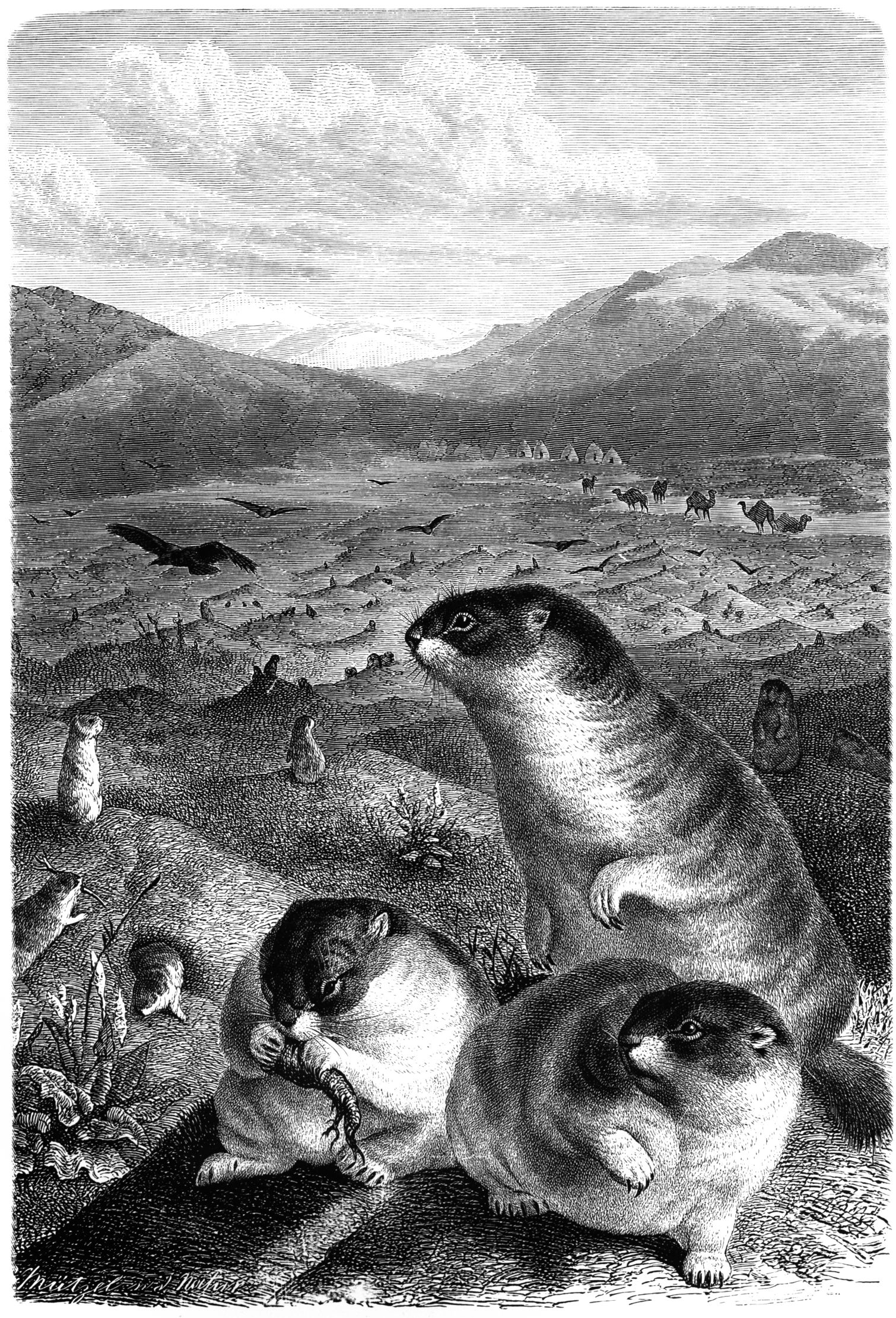 "4. Bobak marmot, Marmota bobak P. L. page Müll. 1/6 natural size, see page 285." Size: 5.0 x 7.4 in² (12.8 x 18.8 cm²)